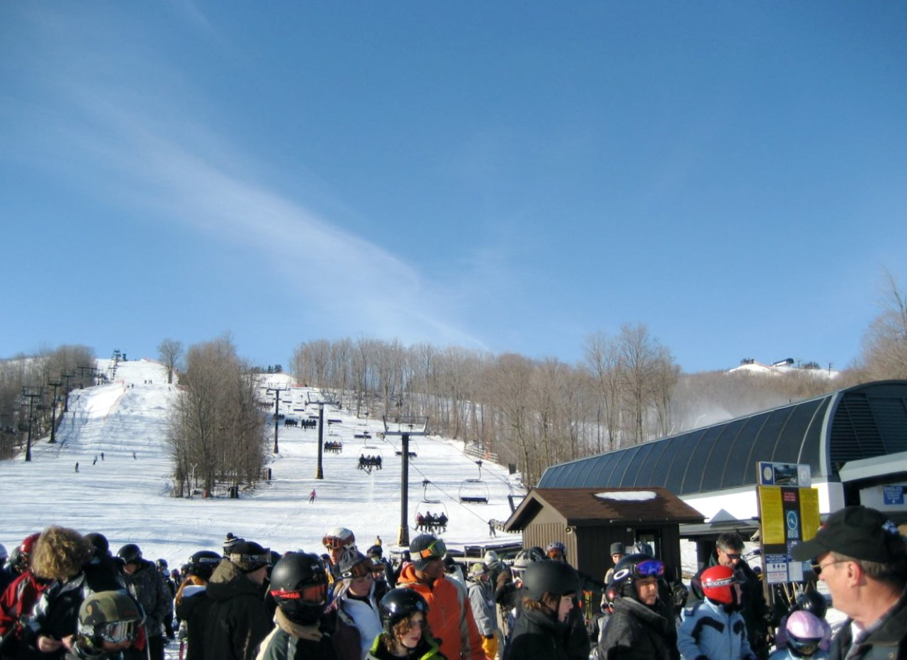 Snowboarding @ Mount St. Louis Moonstone, January 13, 2007 [Photo by mom ]